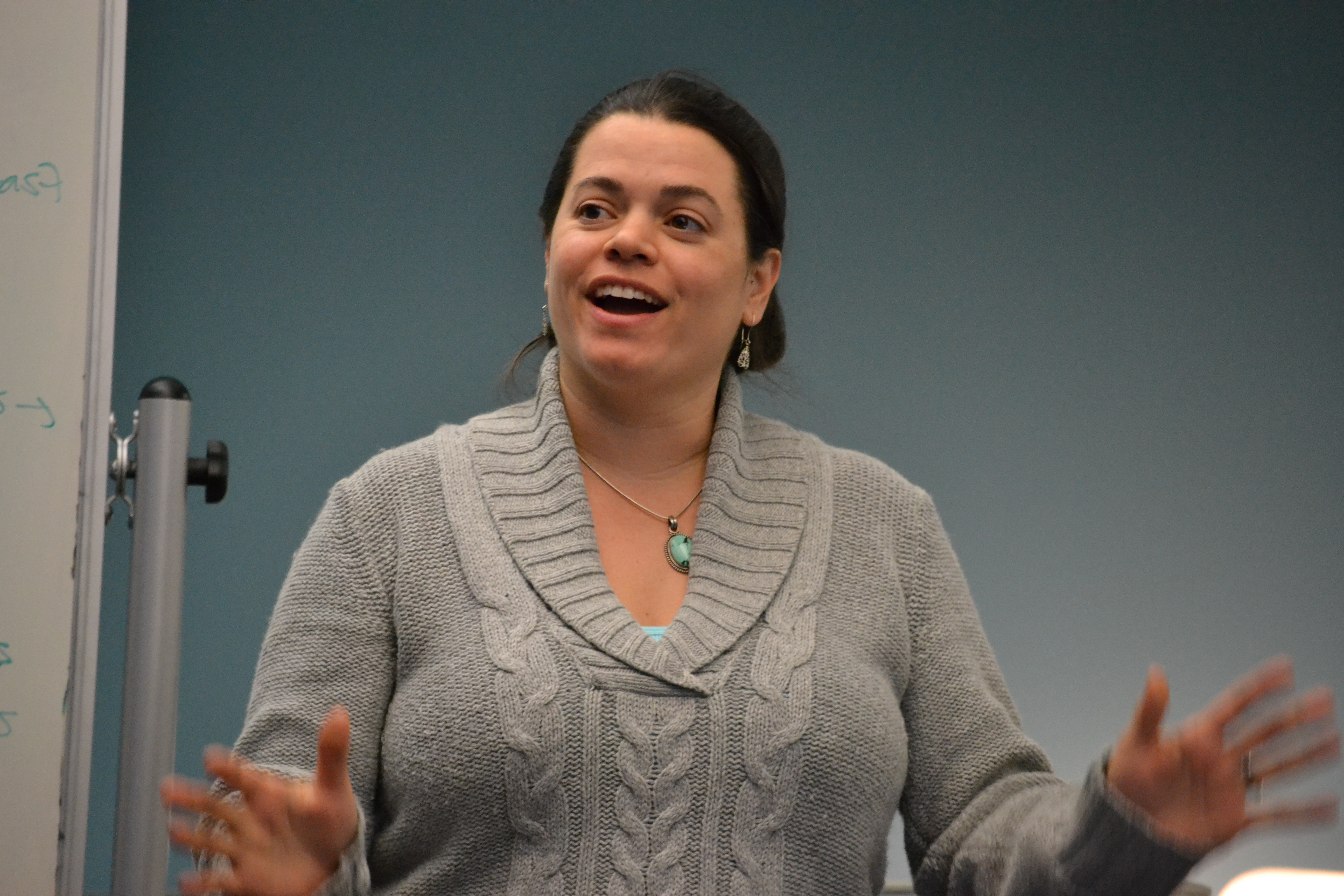 Amy Roth during Ambassadors training.